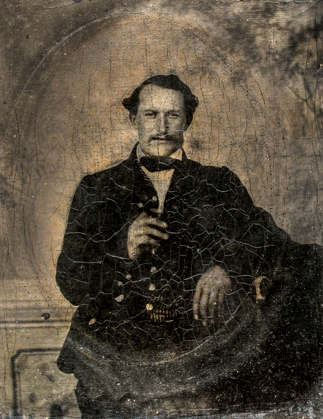 The Pannotype process was only used for a very short time from 1853 until about 1860. After the exposure, the collodiumlayer was removed from the glass negative under acidified water and transferred to a black oilcloth, linen or leather. Like Daguerreotypes and Ambrotypes, they were encased in ornate hinged boxes. In contrast to the Ambrotype, the Pannotype was unbreakable, but extremely sensitive. Therefore only few Pannotypes have survived until today making them very rare. Typically for Pannotypes is the cracked or sometimes wrinkled surface of the picture. This portrait of an unidentified woman is on black oilcloth and had been removed from its original box. Unidentified photographer.